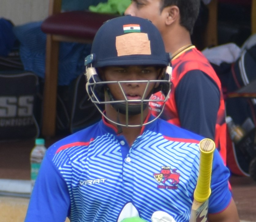 Indian cricketer Yashasvi Jaiswal during the 2019-20 Vijay Hazare Trophy in Alur, Bangalore.